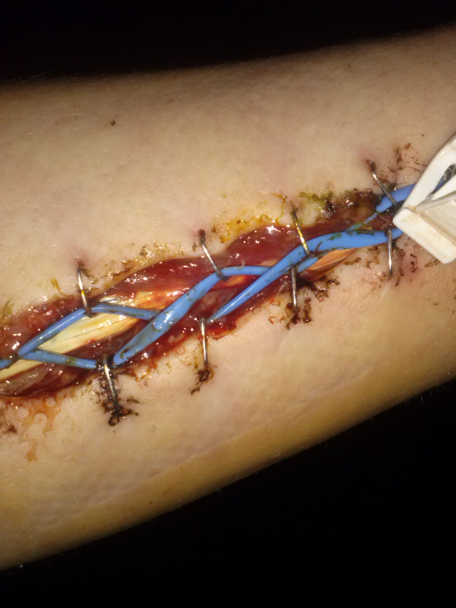 Fasciotomy forearm